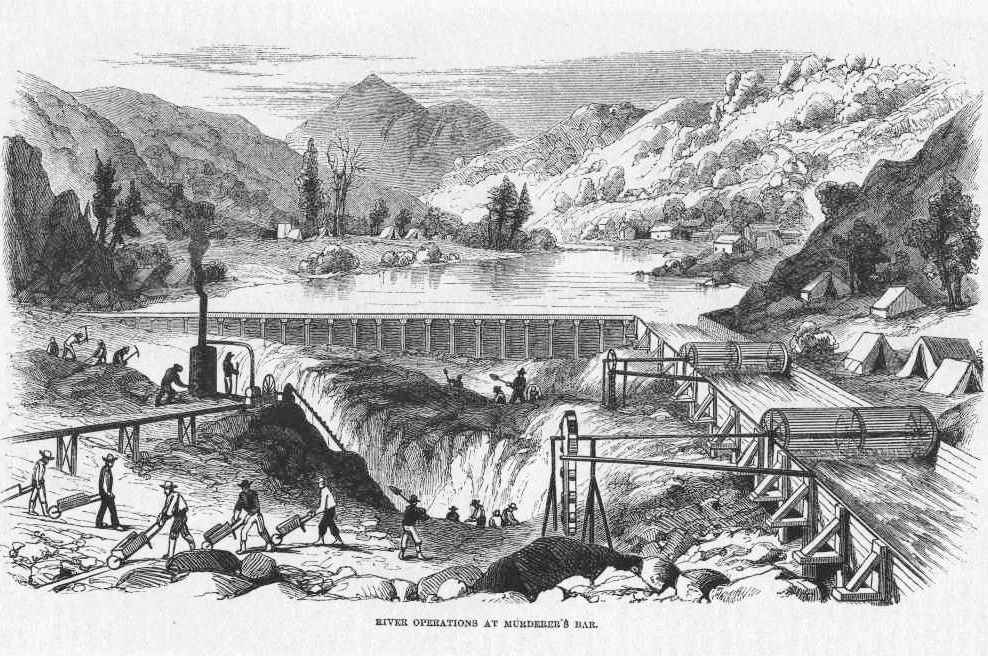 Seeking gold in California river bottom